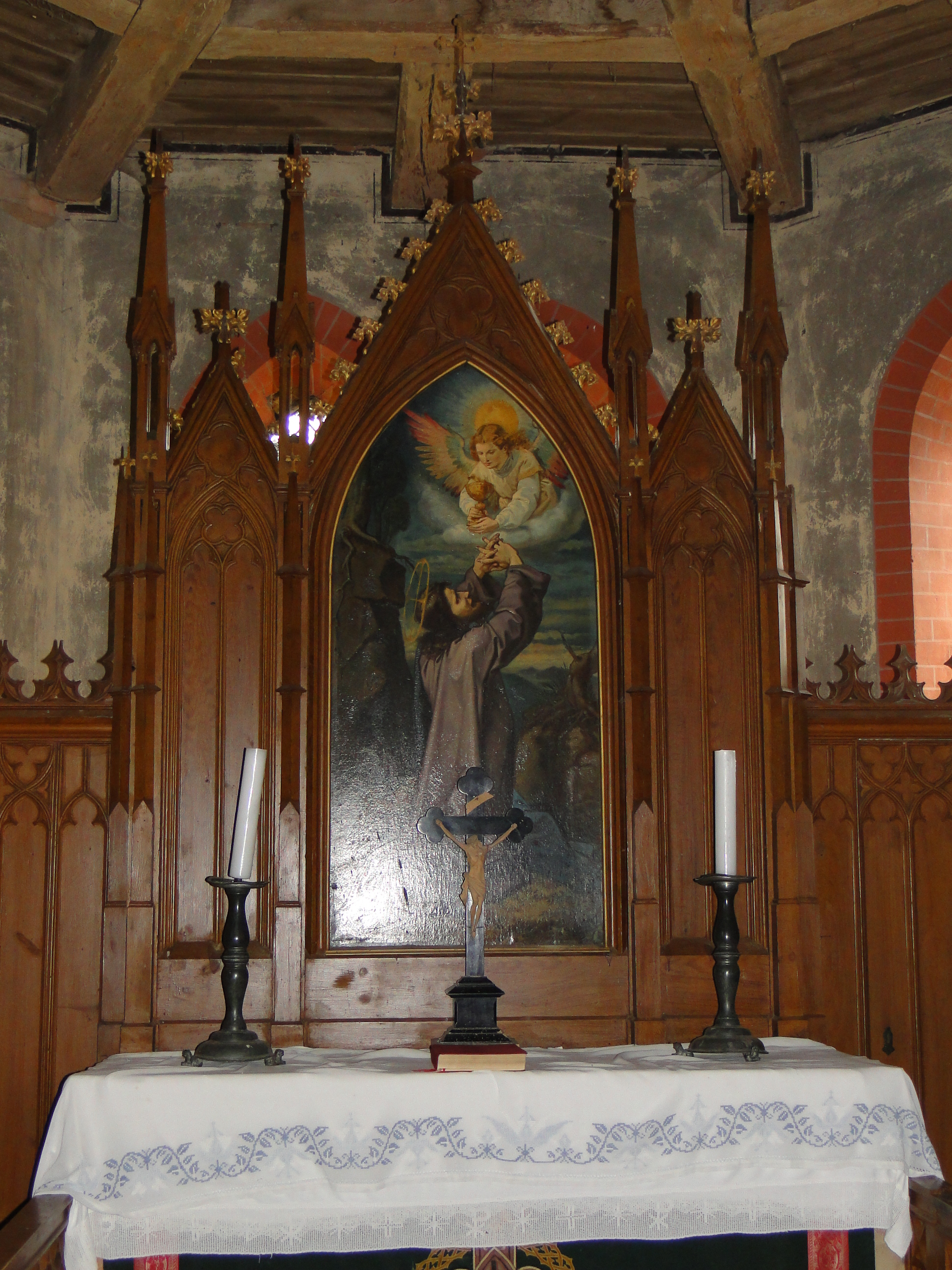 Church in Holzendorf (near Sternberg), distrct Ludwigslust-Parchim, Mecklenburg-Vorpommern, Germany